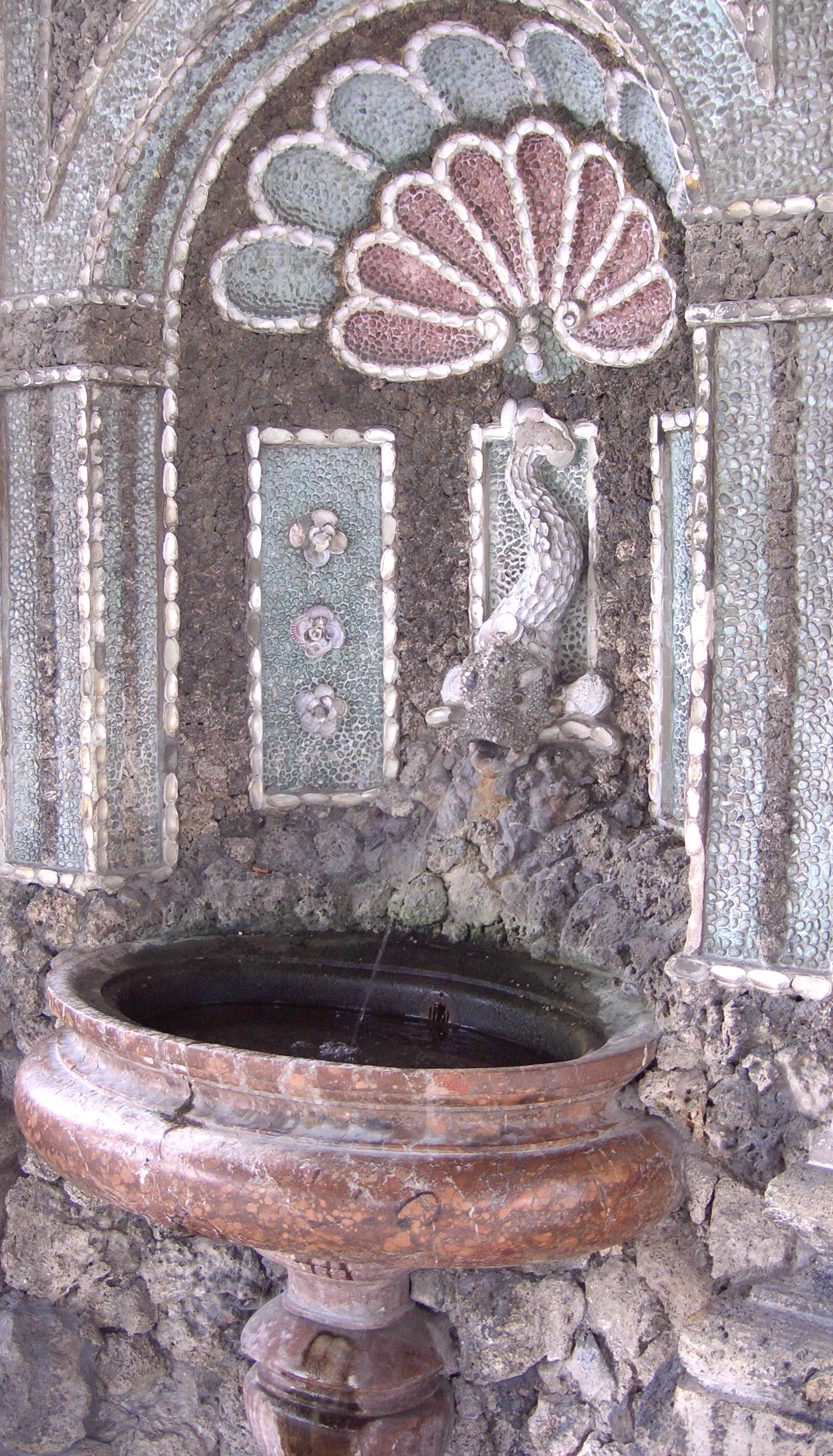 Diana Temple in Munich Hofgarten (former court gardens), 1615Wall basin decorated with mussels